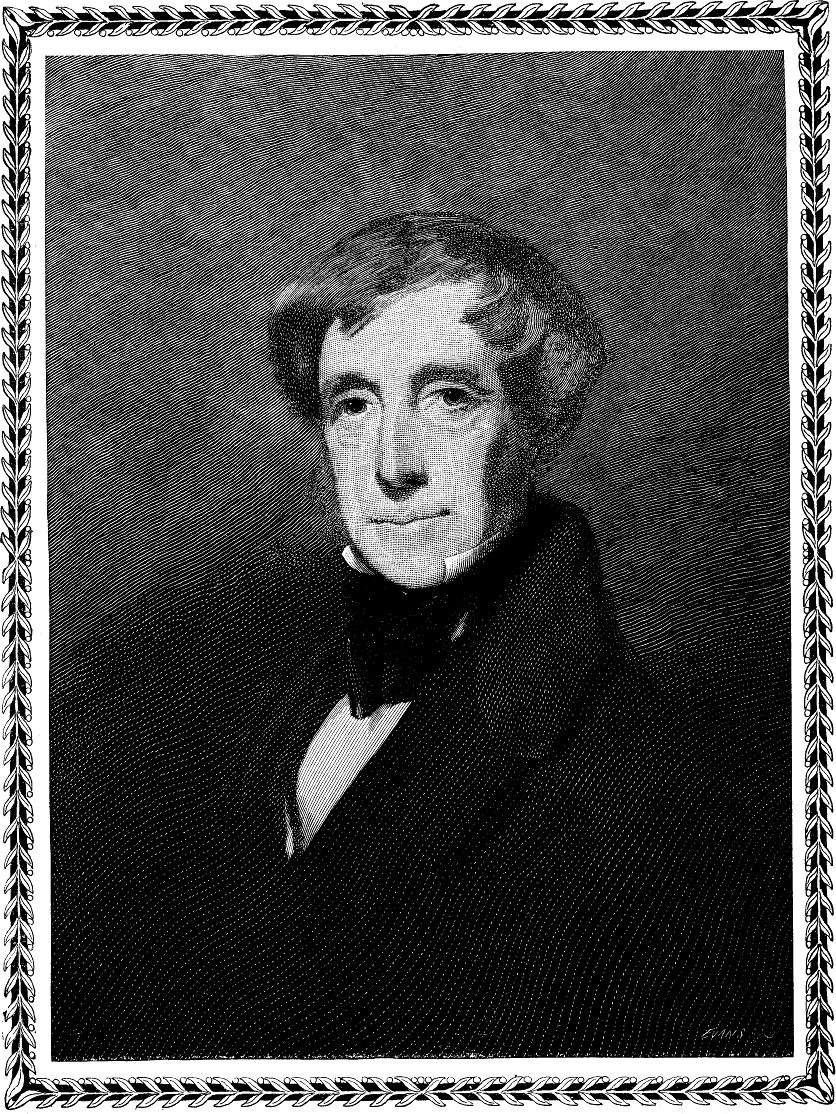 The Author of "A Visit from St. Nicholas"